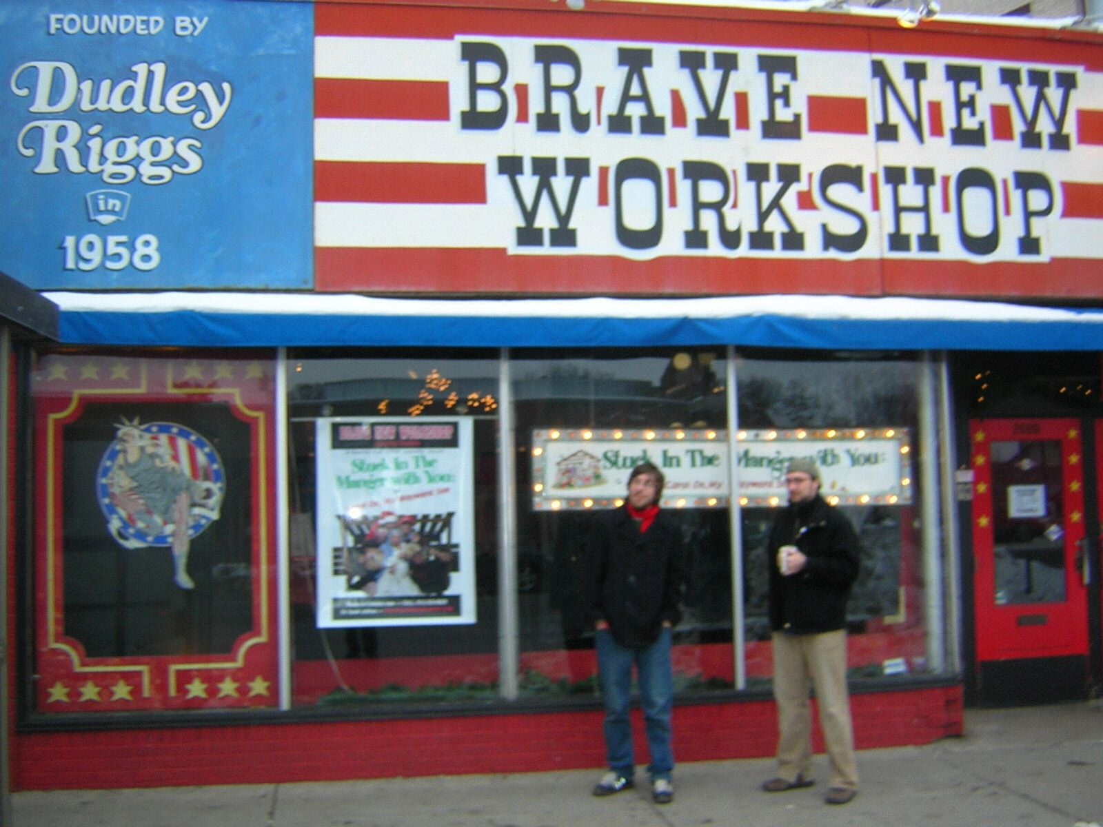 Brave New Workshop, Minneapolis, Minnesota. Thank you to the two performers at the workshop who gave me permission to make this photo.